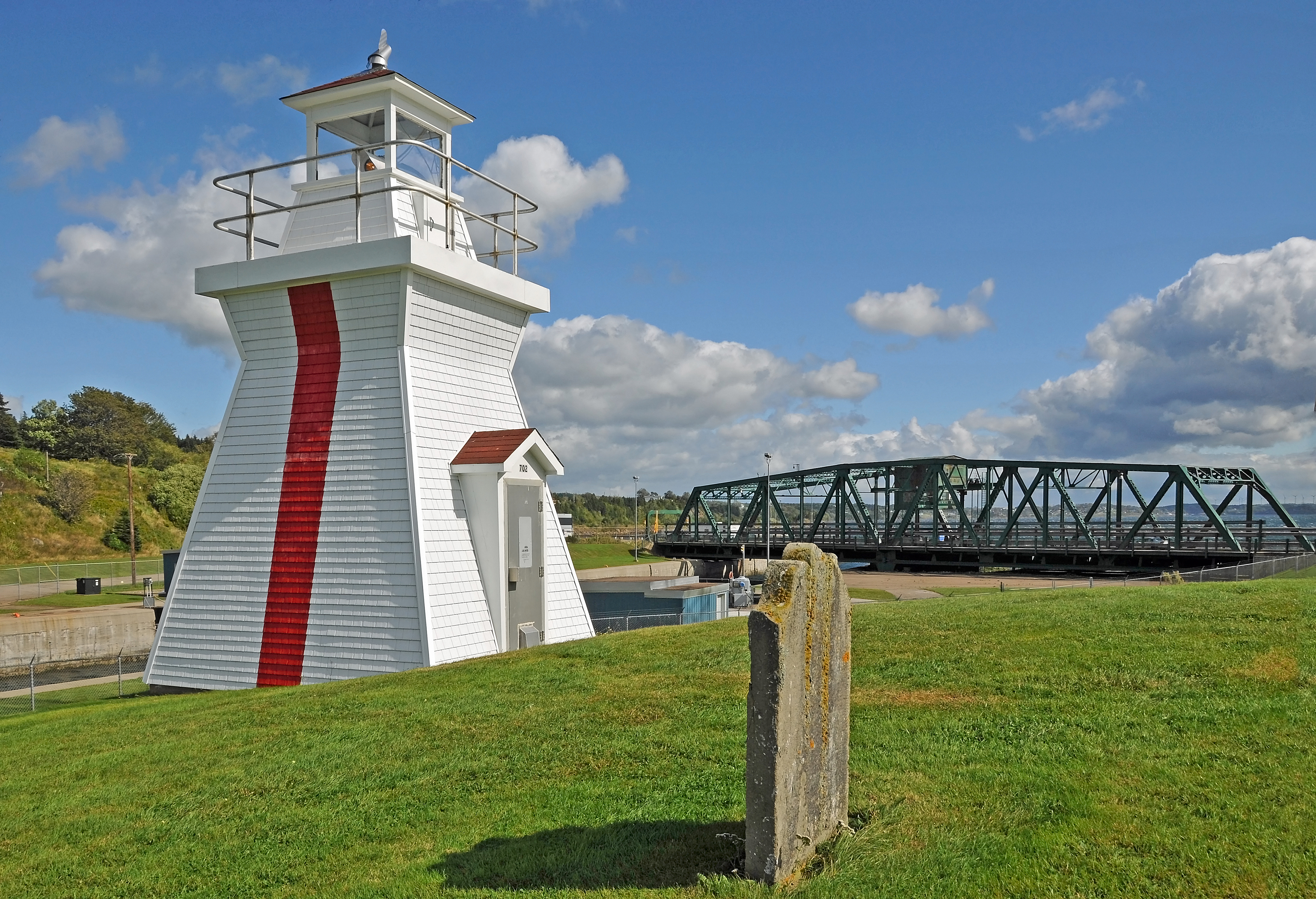 Balache Point Lighthouse. This is the Rear Range Light that was built in 1963, there were two range lights but this is the only one still standing. The Front Range Light was replaced by a skeleton tower in 1991. This light is on top of a small hill on the Cape Breton side of the Canso Causeway, and beside the Canso Canal. Cape Breton Island remains a true island because of the 94 meter (308 ft) Canso Canal Bridge, a swing bridge which carries the road and railway line across the canal. The Canso Causeway is 24 meters (79 ft) wide and 570 meters (1,870 ft) long with the Canso Canal at the eastern end of the causeway to allow ship traffic to transit the Strait of Canso. This is the only lighthouse located in a cemetery in Canada, and probably the world, making it very unique. This area contains six headstones for seven people. The oldest headstone is for Douce Elizabeth Belhache aged 6 years and 8 months who died on July 23, 1795. Other early settlers buried there are James and Christena Skinner, Angus and Jane Grant, Charles Fox and his daughter Mary. She died in 1880 and was the last person buried on the piece of land beside the Causeway known both as Belhache Point and MacMillan’s Point. Tower Height: 6.7 meters (22ft) Light Height: 14 meters (46ft) above water level